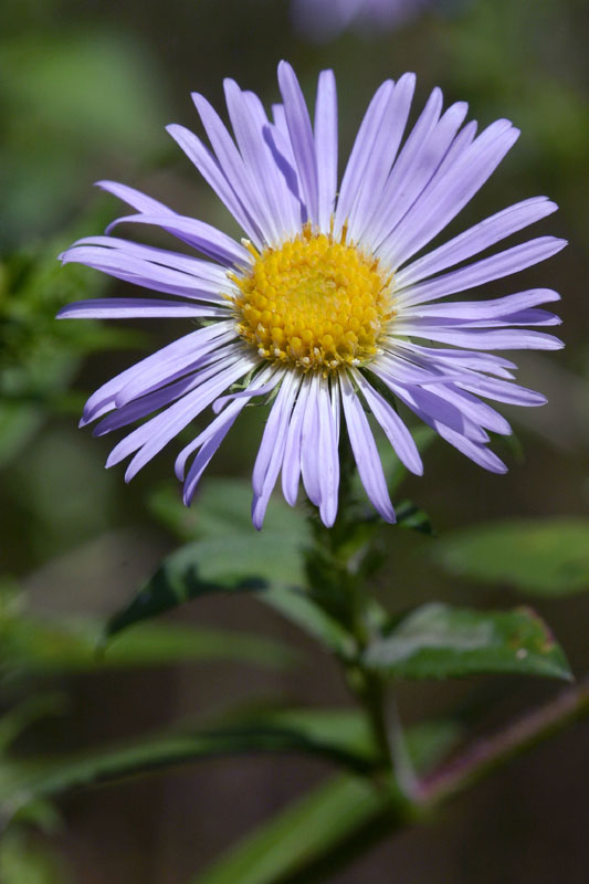 Photograph of flower head of Symphyotrichum novae-angliae (Syn: Aster novae-angliae), taken 5th September 2004 at Augusta Springs Wetlands, Virginia, USA, by Brian Arthur and released under the GNU Free Documentation License. All remaining rights reserved.